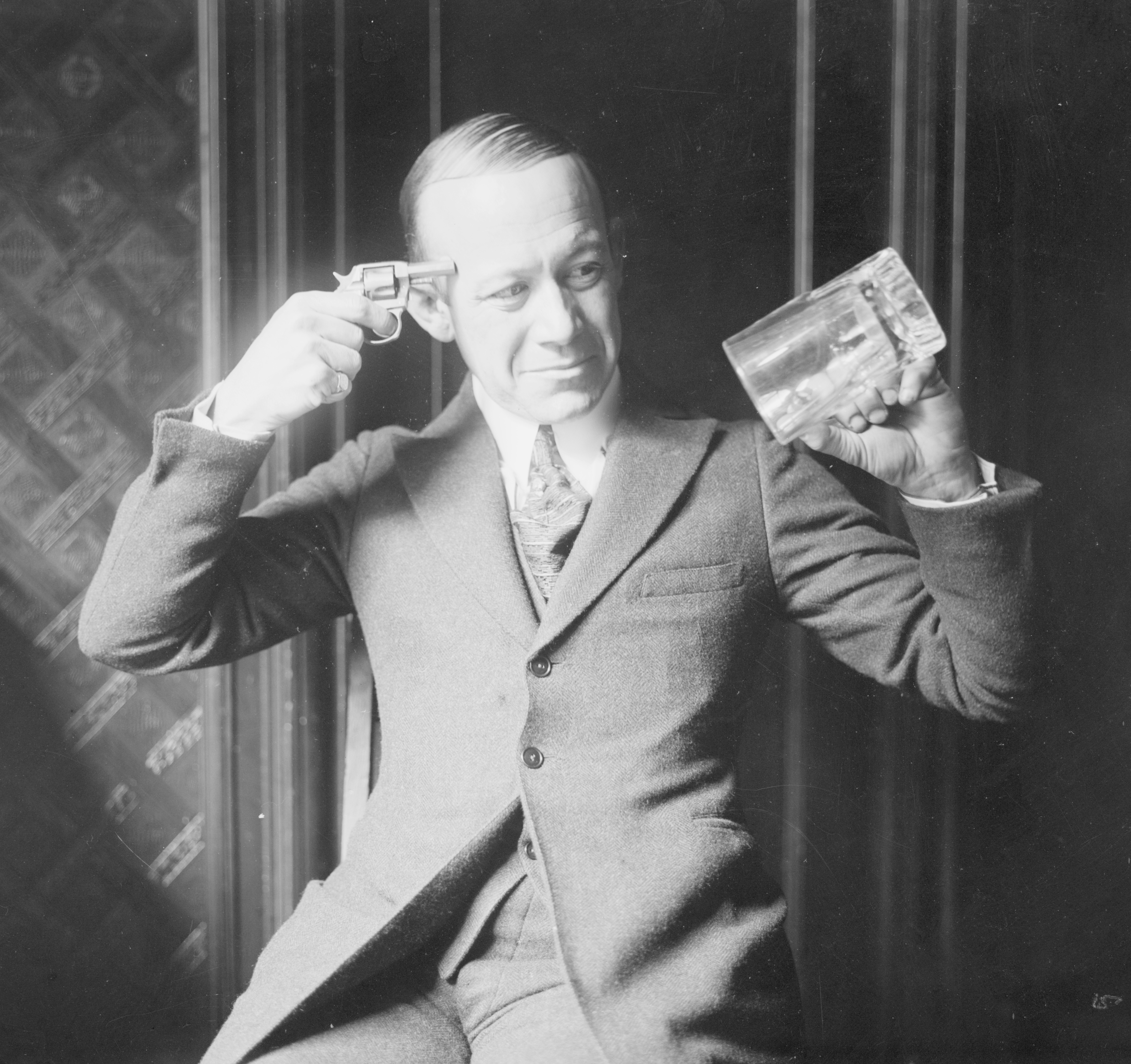 Comedian & singer Ernest Hare. He is holding an empty beer mug in one hand and holding a small revolver to his head with the other, no doubt a joking reference to Prohibition.